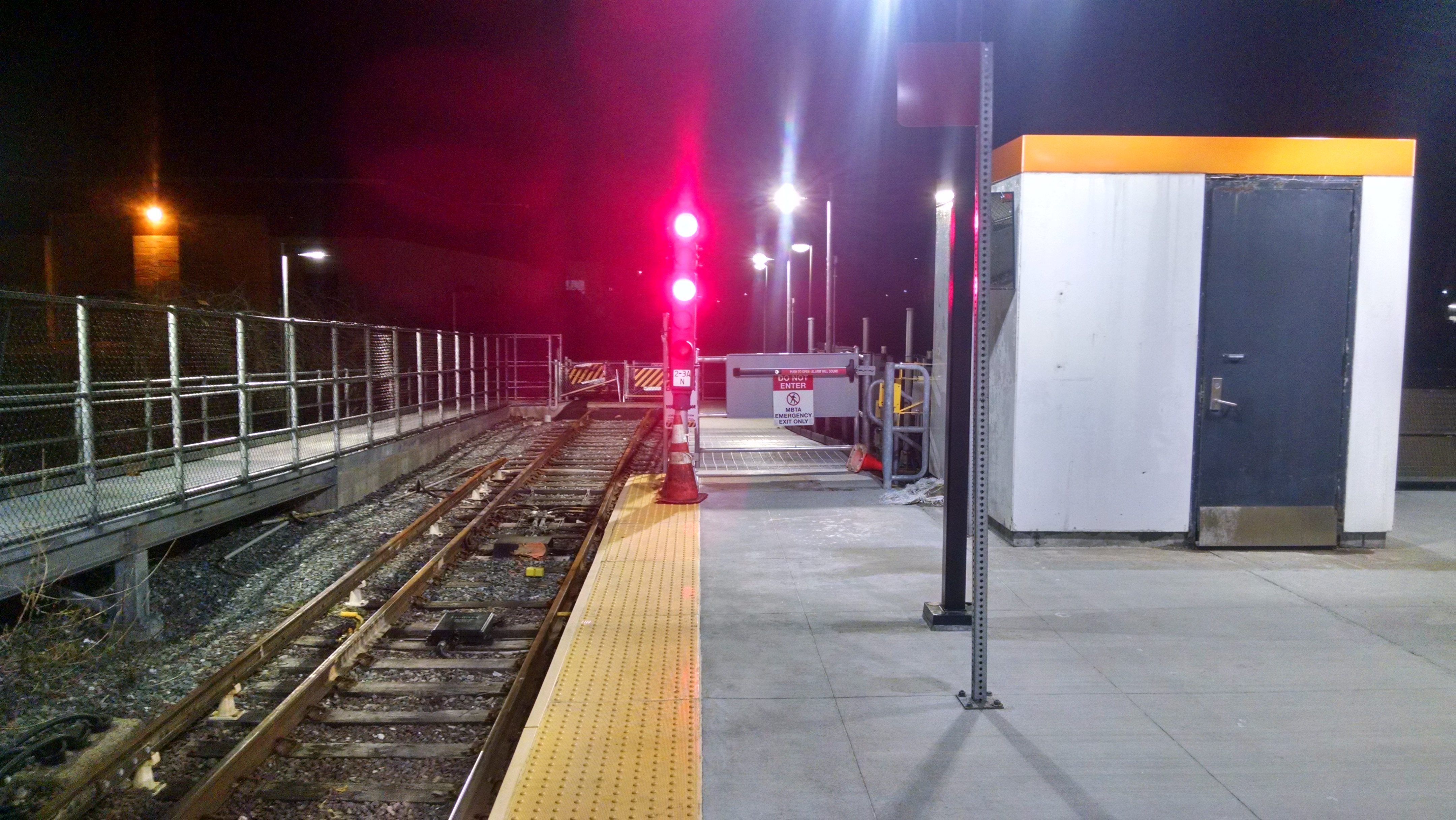 2014-constructed emergency exit at Oak Grove station in April 2015